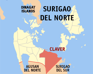 Map of the Surigao del Norte showing the location of Claver